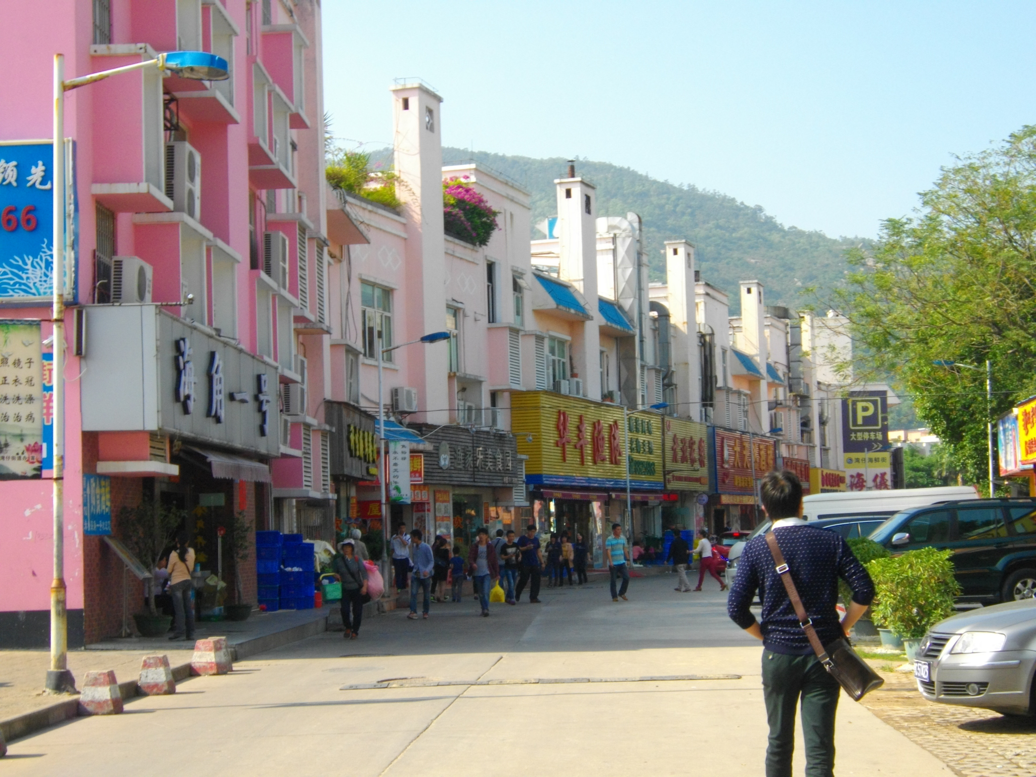 Wanzai Seafood Street